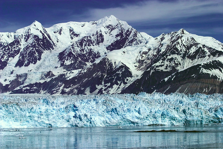 Mount Seattle and Hubbard Glacier from Disenchanment Bay in Alaska